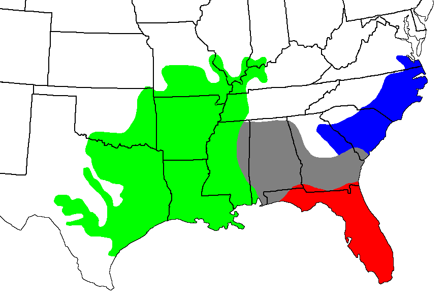 Range map for Agkistrodon piscivorus. Blue = A. p. piscivorus; Red = A. p. conanti, Green = A. p. leucostoma, Gray = integradation. Based on map included in Campbell & Lamar (2004), page 271.